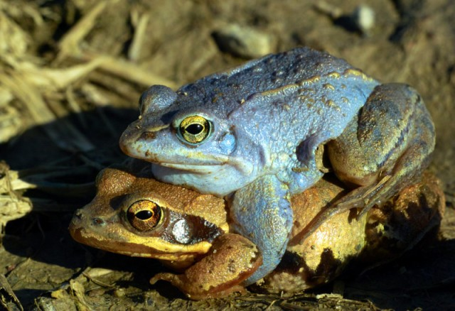 Moor frog, Rana arvalis